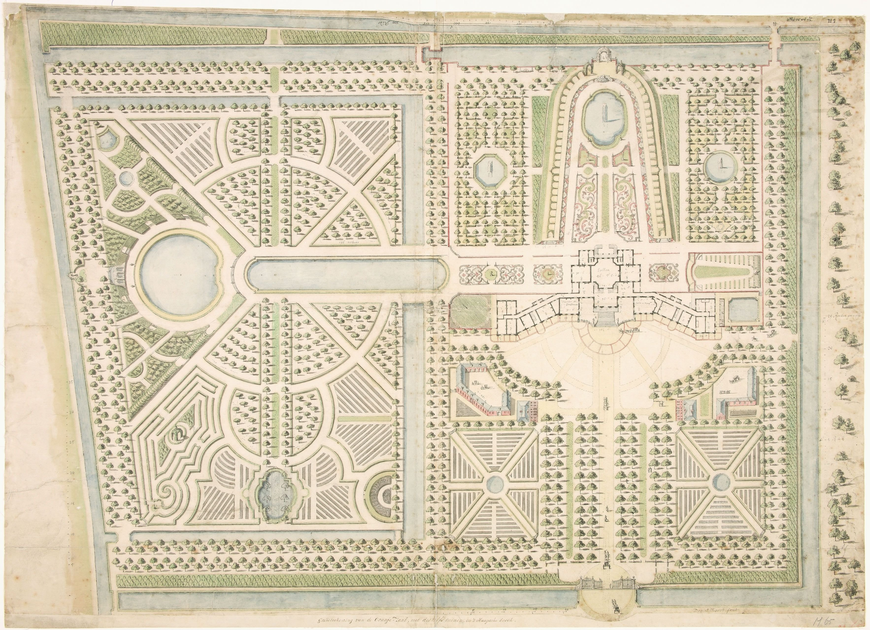 Design of the garden of palace Huis ten Bosch, The Hague, The Netherlands by the architect Daniël Marot. Map is kept at the city archive of The Hague.